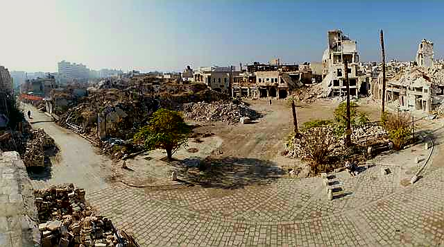 Sahat al Hatab Jdeideh Alepa 2017 after backfilling craters